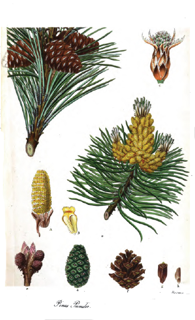 Pinus mugo (syn. P. pumilio). Botanical illustration from: Description of the Genus Pinus, with directions relative to the cultivation, remarks on the uses of the several species and descriptions of many other new species of the Family of Coniferae illustrated with figures by Aylmer Bourke Lambert, Esq. London: Messrs. Weddell, MDCCCXXXII